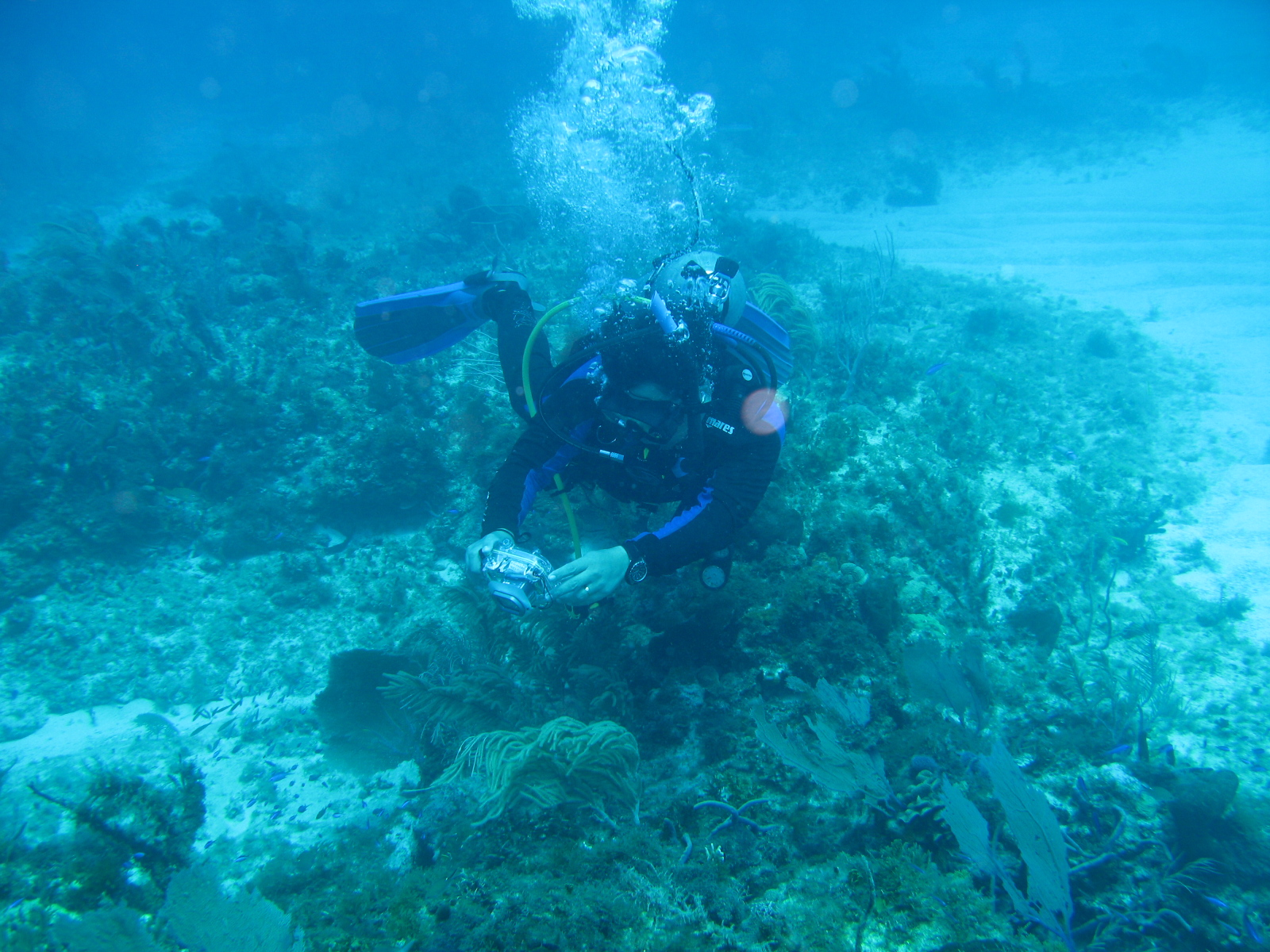 Working for Commons